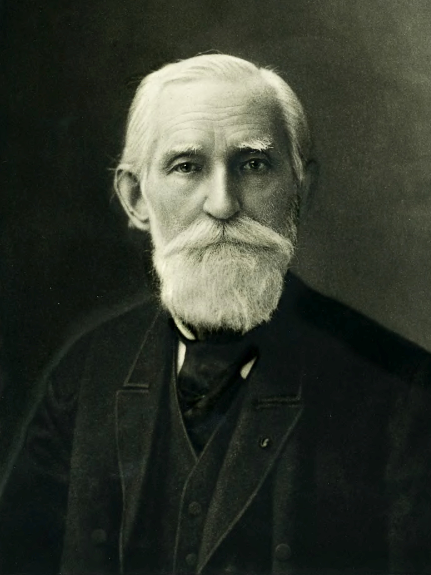 Pafnuty Lvovich Chebyshev (Пафнутий Львович Чебышёв) (1821–1894) was a prominent Russian mathematician, professor on algebra, number theory, and probability at St. Petersburg University and member of many Academies